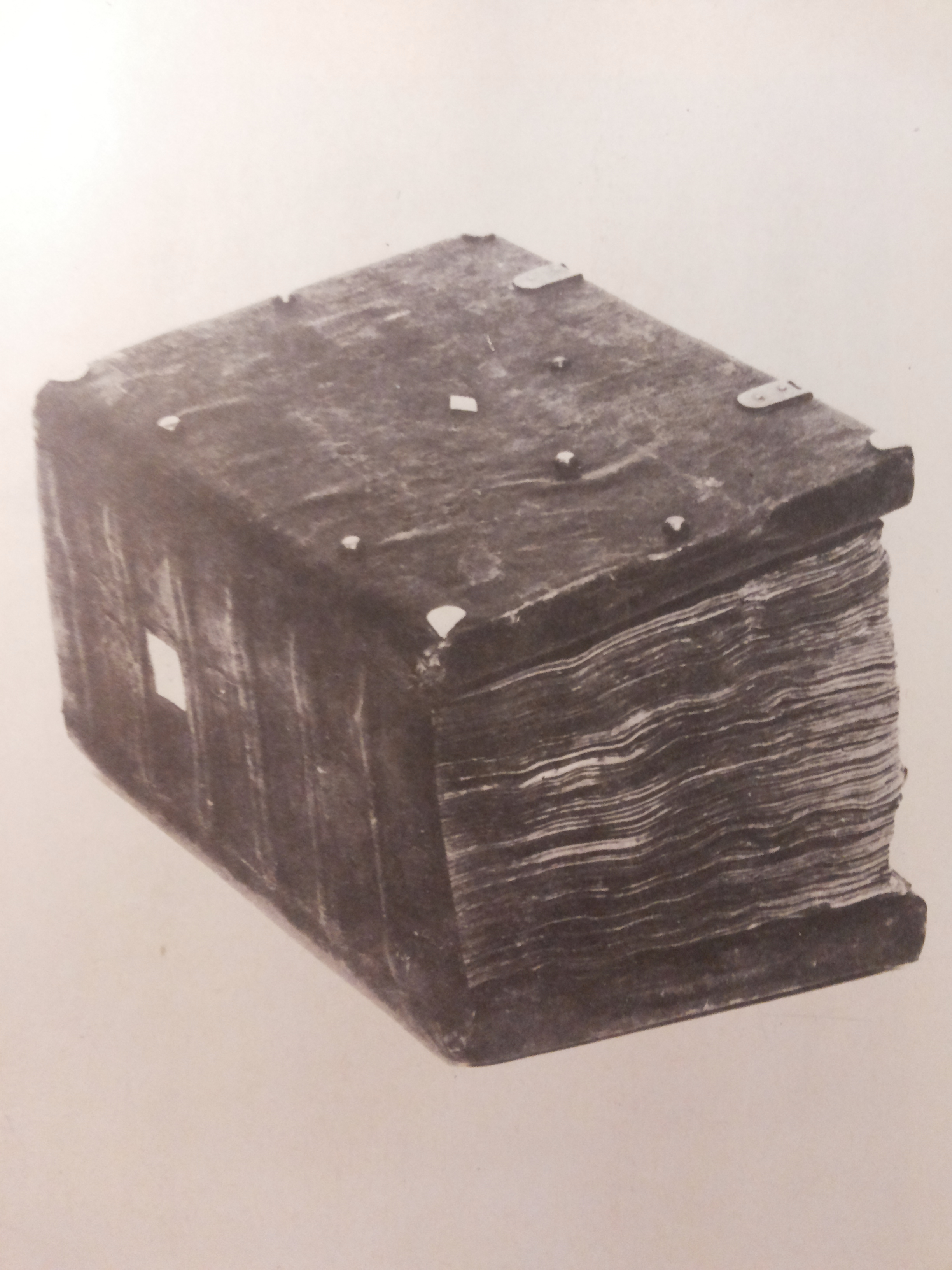 There is a foto of Sinodal`naya Kormchaya book